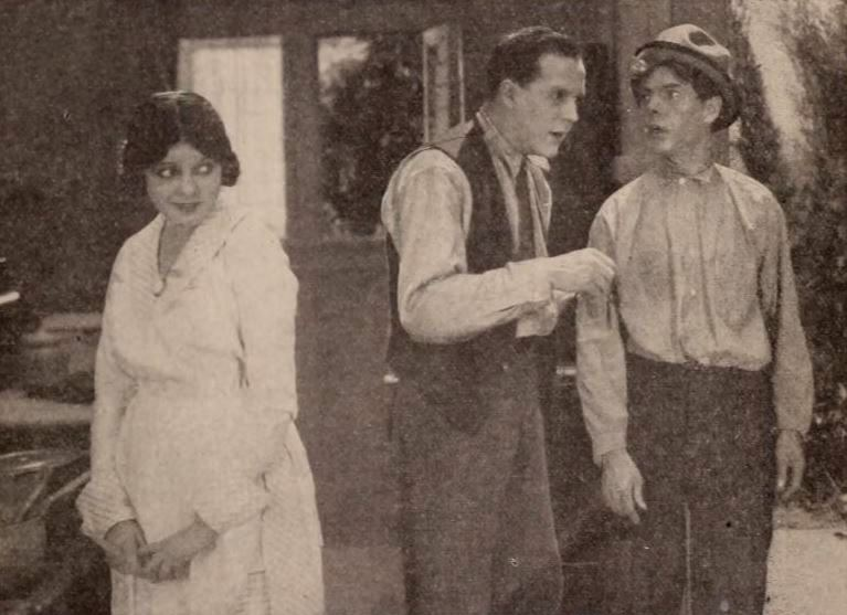 Still from the American drama film Rose o' the River (1919) with Lila Lee, Robert Brower, and Darrell Foss, on page 47 of the August 2, 1919 Exhibitors Herald. The caption states that this still is from the final scene.